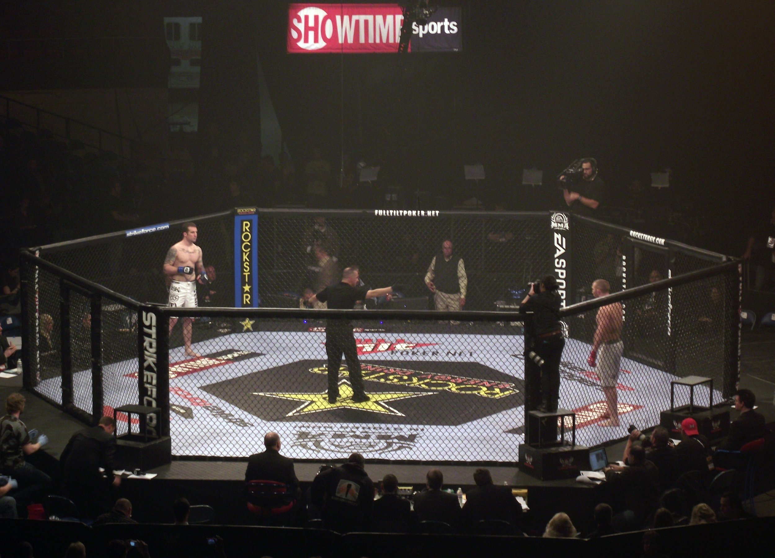 A photo of the Strikeforce cage at Strikeforce Challengers 13.